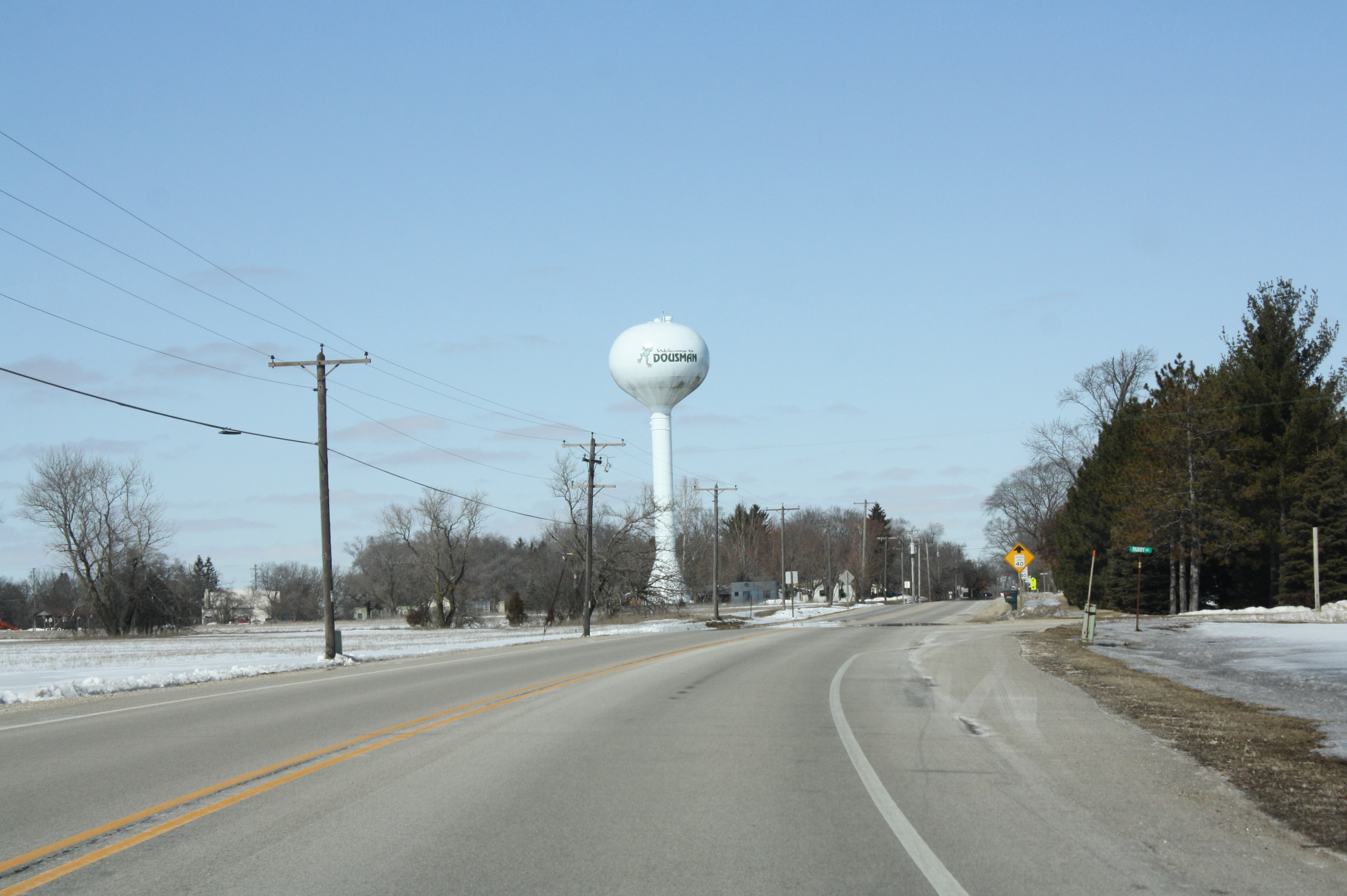 Entering Dousman, Wisconsin from the south on Wisconsin Highway 67.